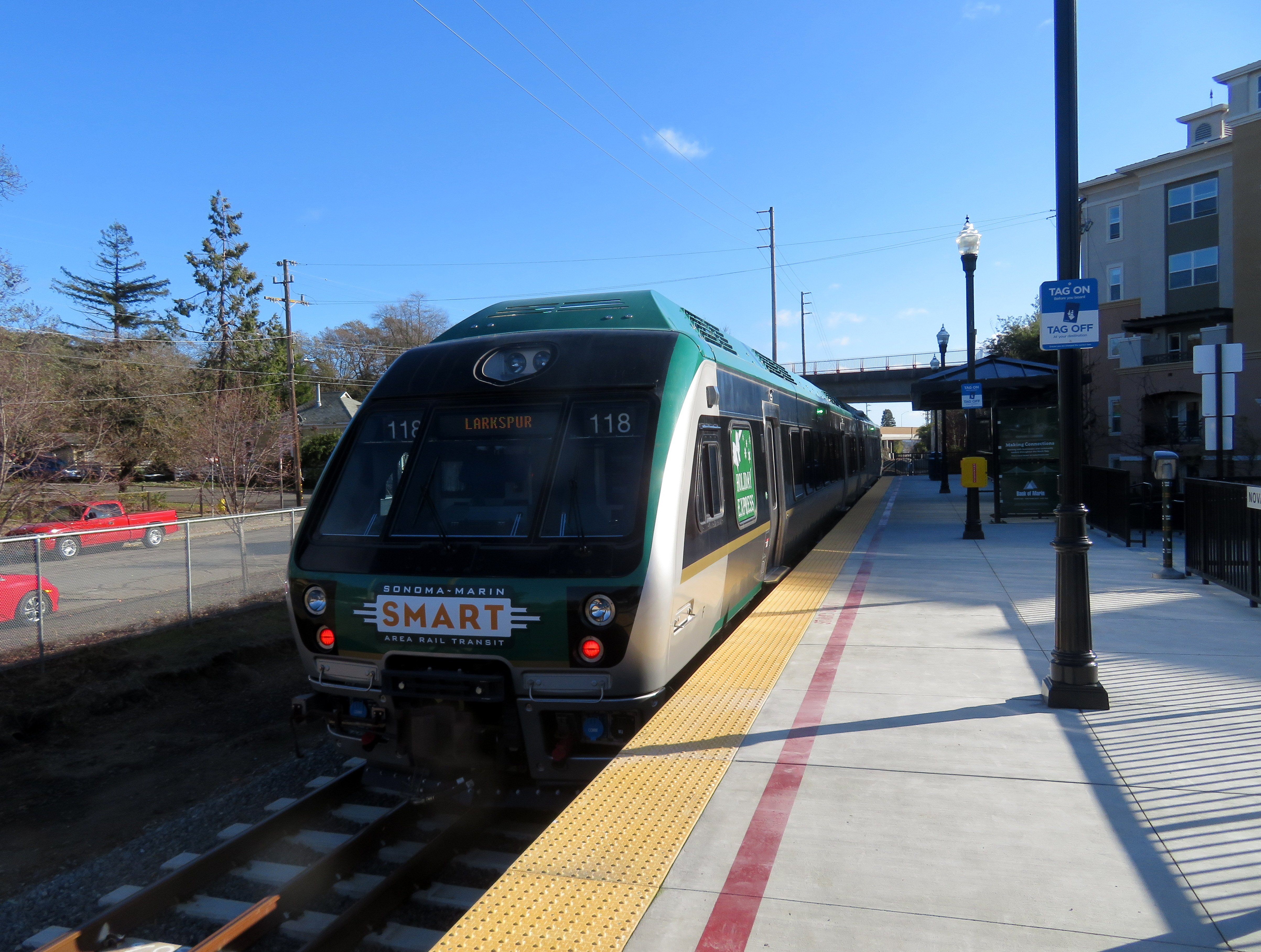 A southbound train at Novato Downtown station on the first day of service in December 2019